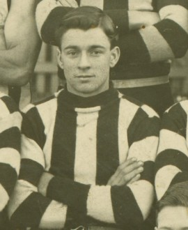 Photograph of Art Wilkinson in 1912